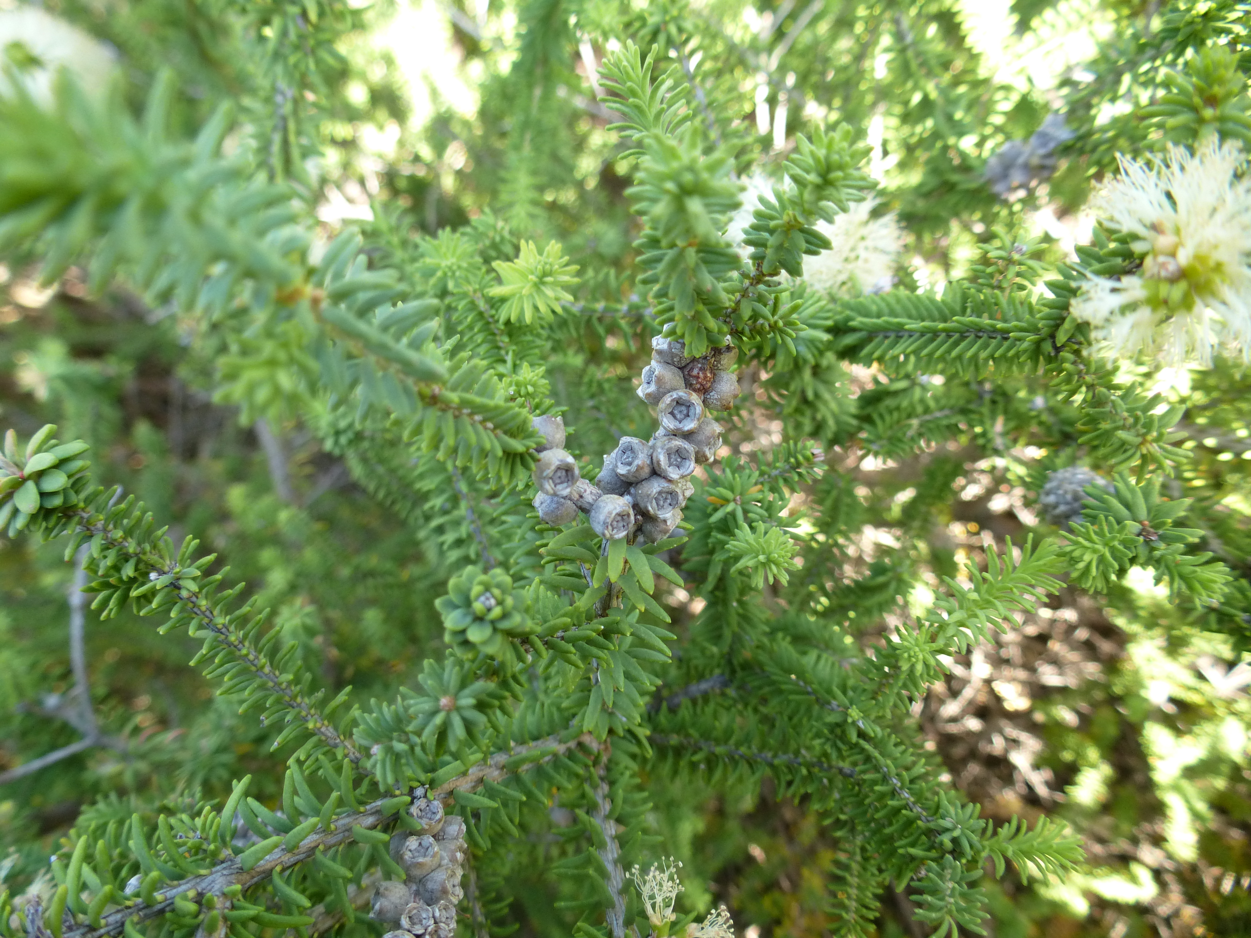 Melaleuca microphylla at Bettys Beach